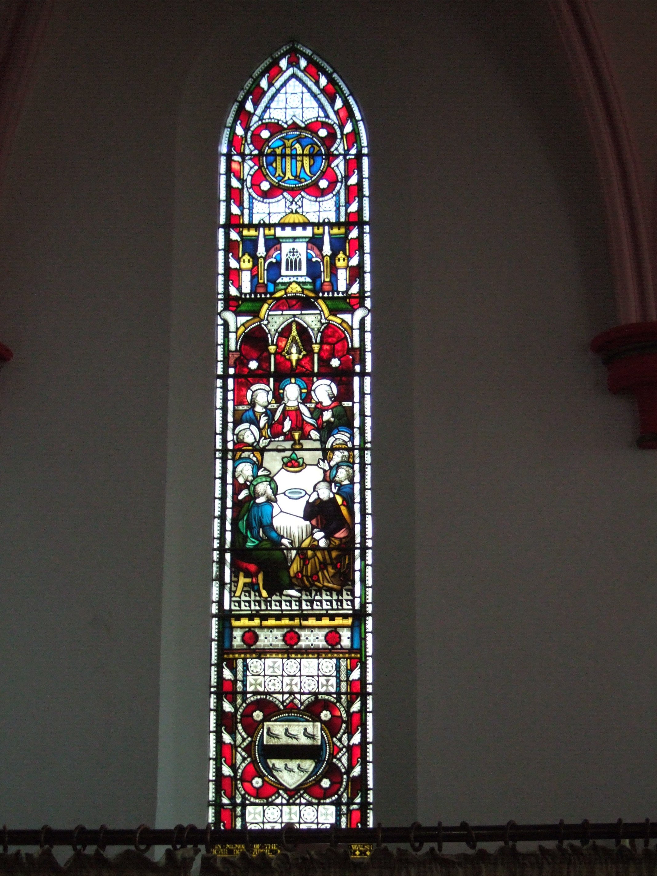 Holy Trinity Church, Wiltshire, England. Window in south wall of All Saints Chapel, memorial to Rev Digby